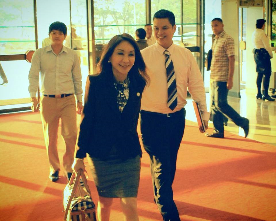 Rep. Garcia coming to work in the House of Representatives